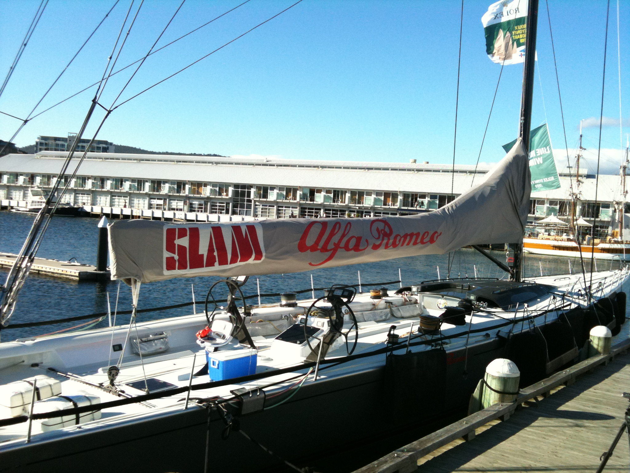 The winner of the 2009 Sydney to Hobart - A view of the deck of Alfa Romeo which is docked in Hobart on the morning after finishing the 2009 race.